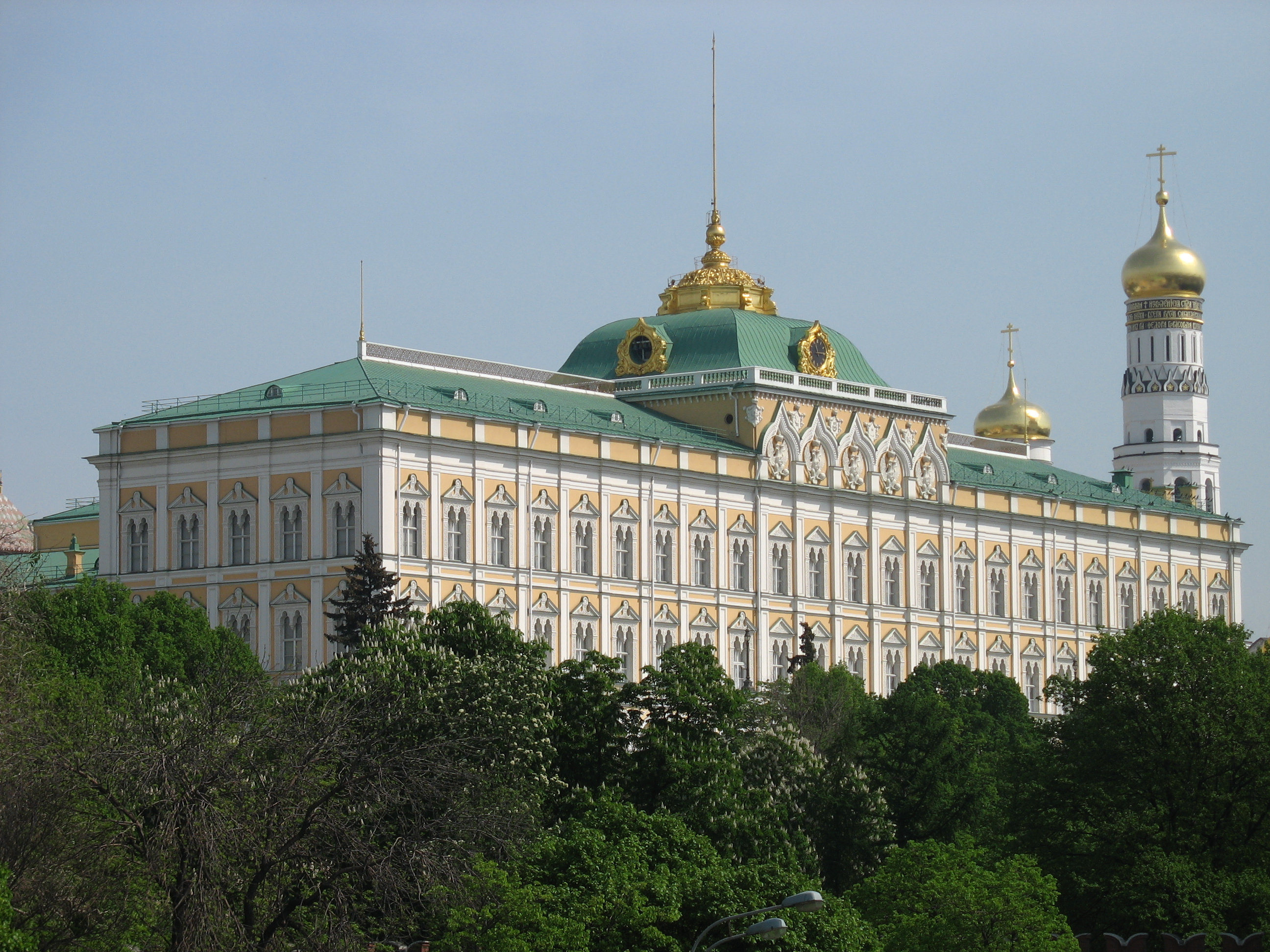 Grand Kremlin Palace in Moscow